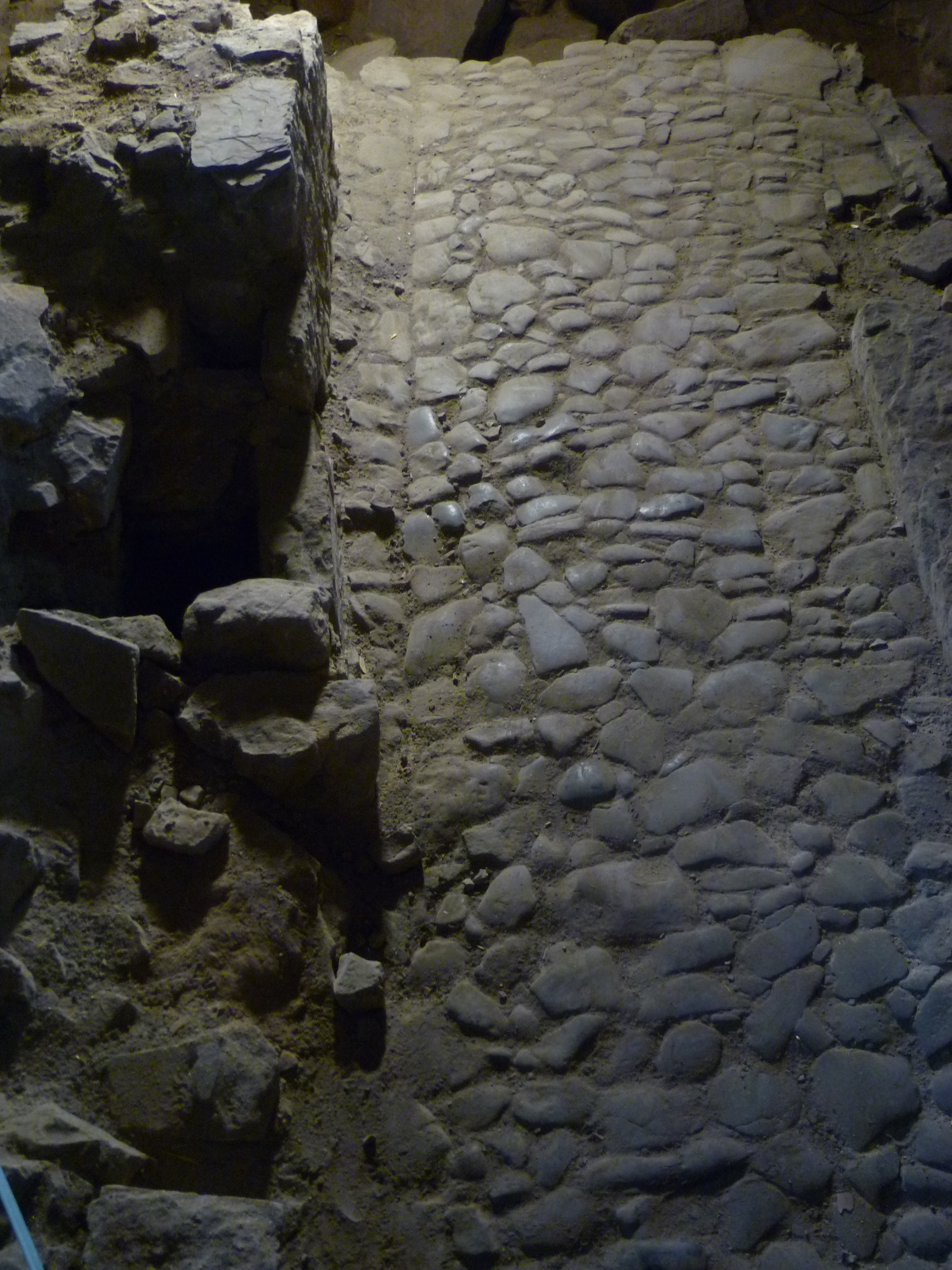 The surface of Marlin's Wynd beneath the Tron Kirk. The Wynd, which ran from the High Street to the Cowgate, was paved in 1532 by a French stone mason named Walter Merlion, hence its name.